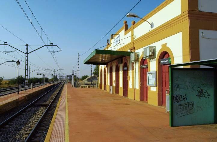 Yunquera de Henares Railway Station, in the province of Guadalajara, Spain.